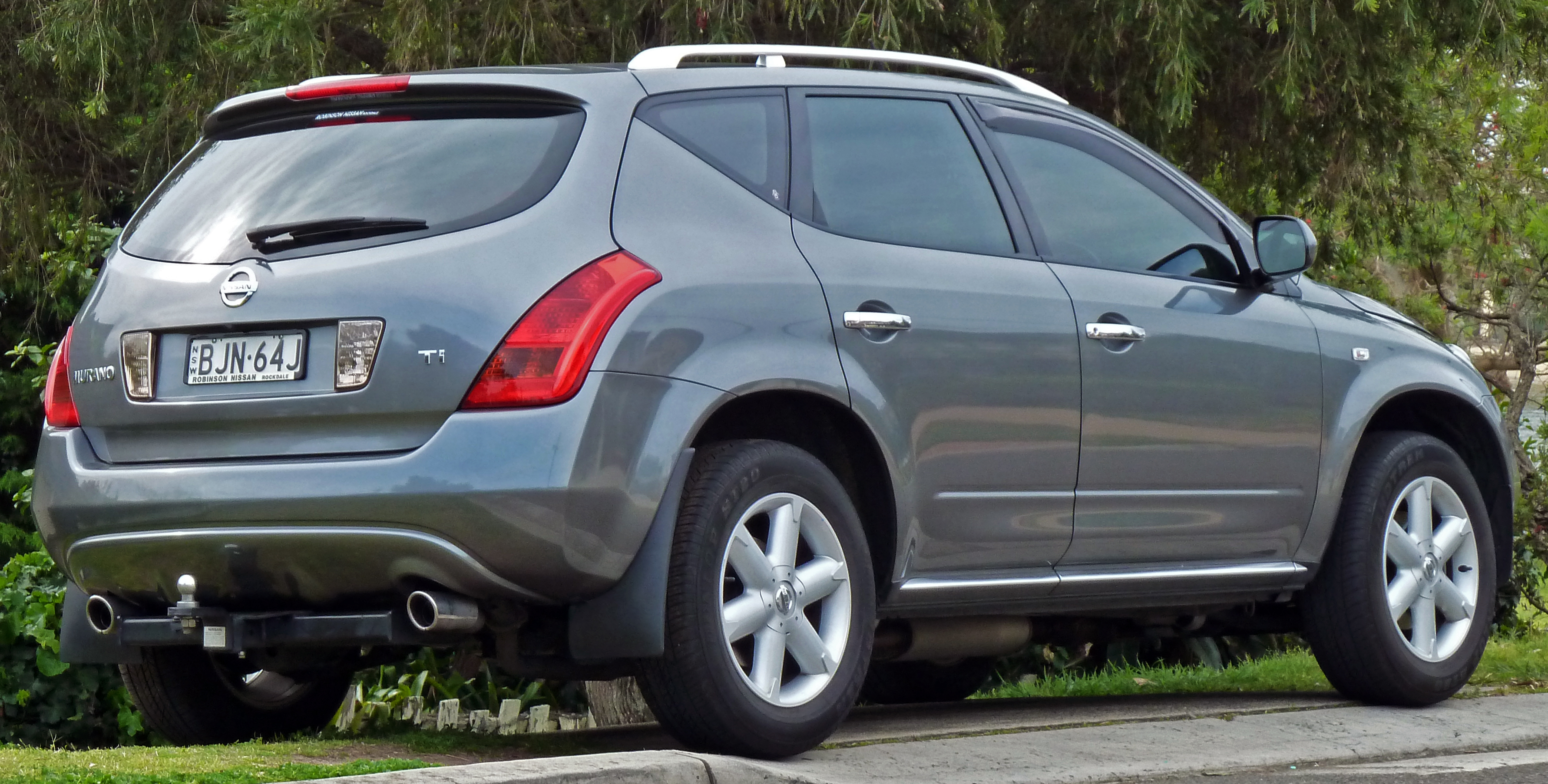 2005–2008 Nissan Murano (Z50) Ti wagon. Photographed in Taren Point, New South Wales, Australia.